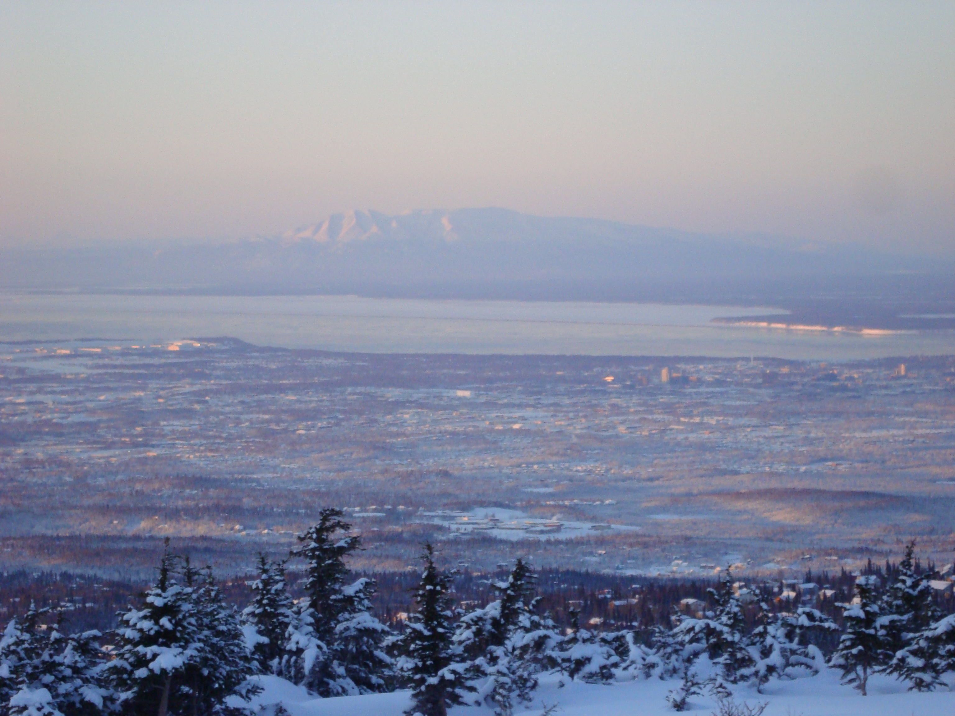 This is a photo of mid-town Anchorage Alaska, taken from Flat-top Mountain during 0oF weather. Beyond the Chester Creek area, on the right hand side, (North), The large hangers on the left hand side, near Point Woronzof, mark the edge of the International Airport, with South Anchorage also being out of the picture. The large building near the lower center is Robert Service High School. Beyond Cook Inlet, in the background, is Mt. Susitna (also called 'The Sleeping Lady').